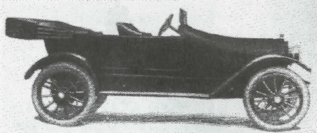 1915 Lambert automobile model 48-C touring